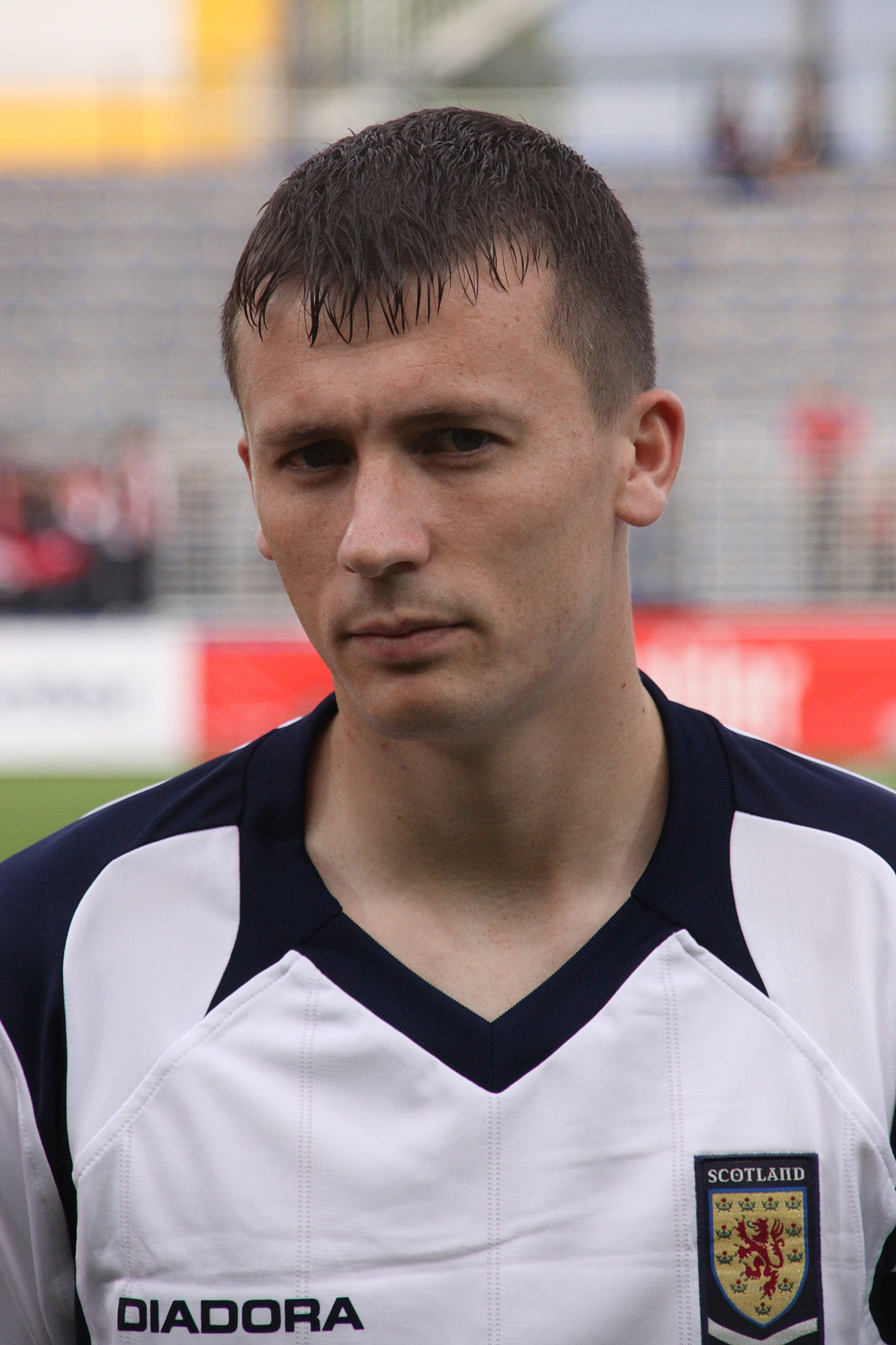 Paul Caddis (Celtic Glasgow) - Schottische Fußballnationalmannschaft (U-21-Männer) Paul Caddis (Celtic F.C.) - Scotland national under-21 football team — (1)